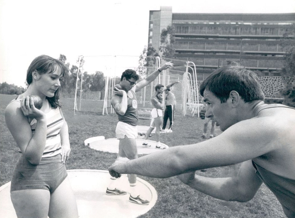 1968 Press Photo Husband and Wife of Swiss Track Team, Sieglinde & Ernst Ammann